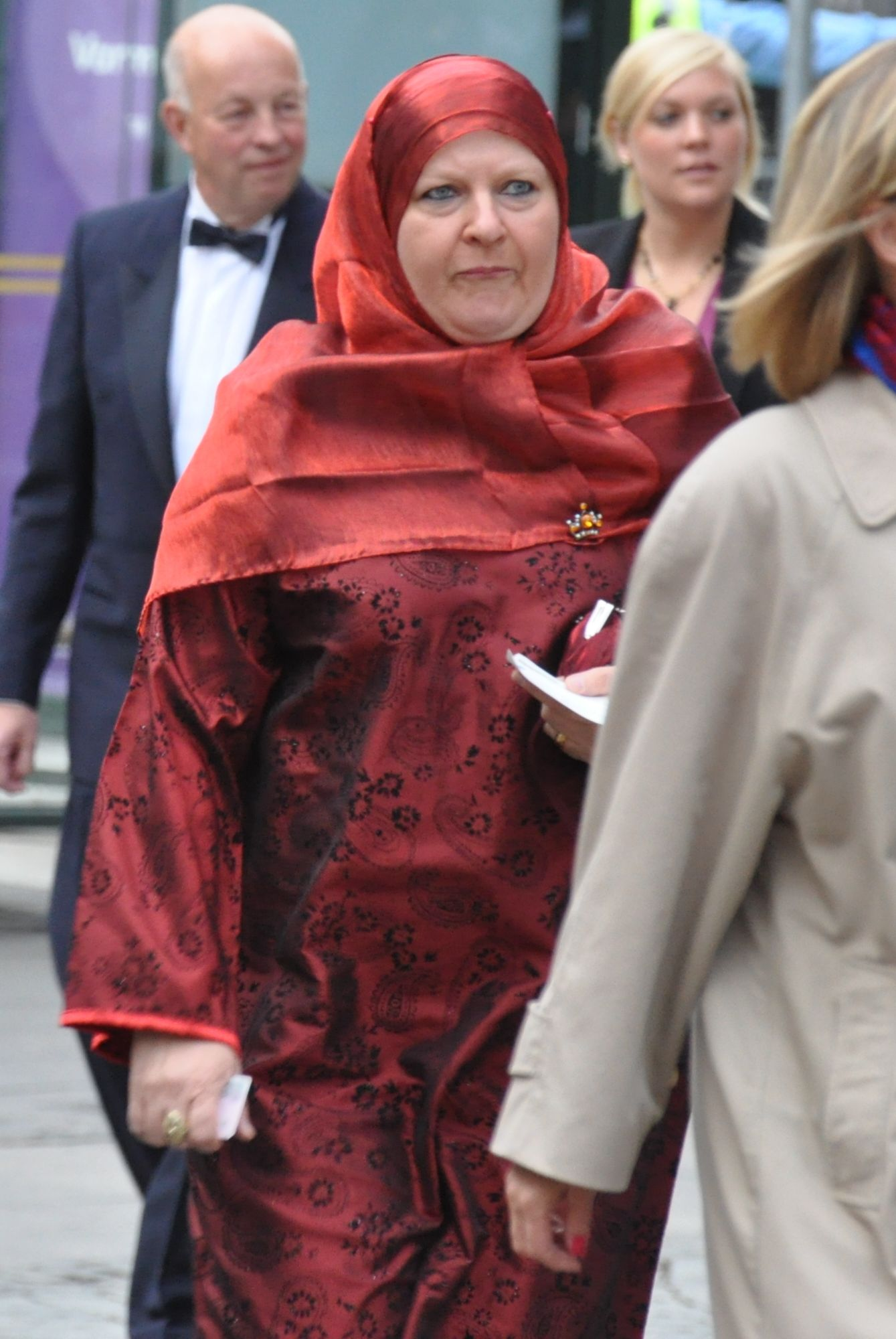 Wedding of Victoria, Crown Princess of Sweden, and Daniel Westling; Arrival of members for the Gouvernment and Swedish and foreign guests of hounour to the Riksdag's Gala Performance at Konserthuset